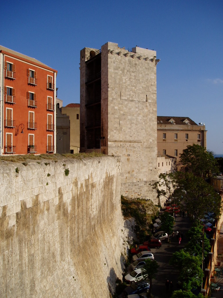 Elephant's tower and Holy Cross walls